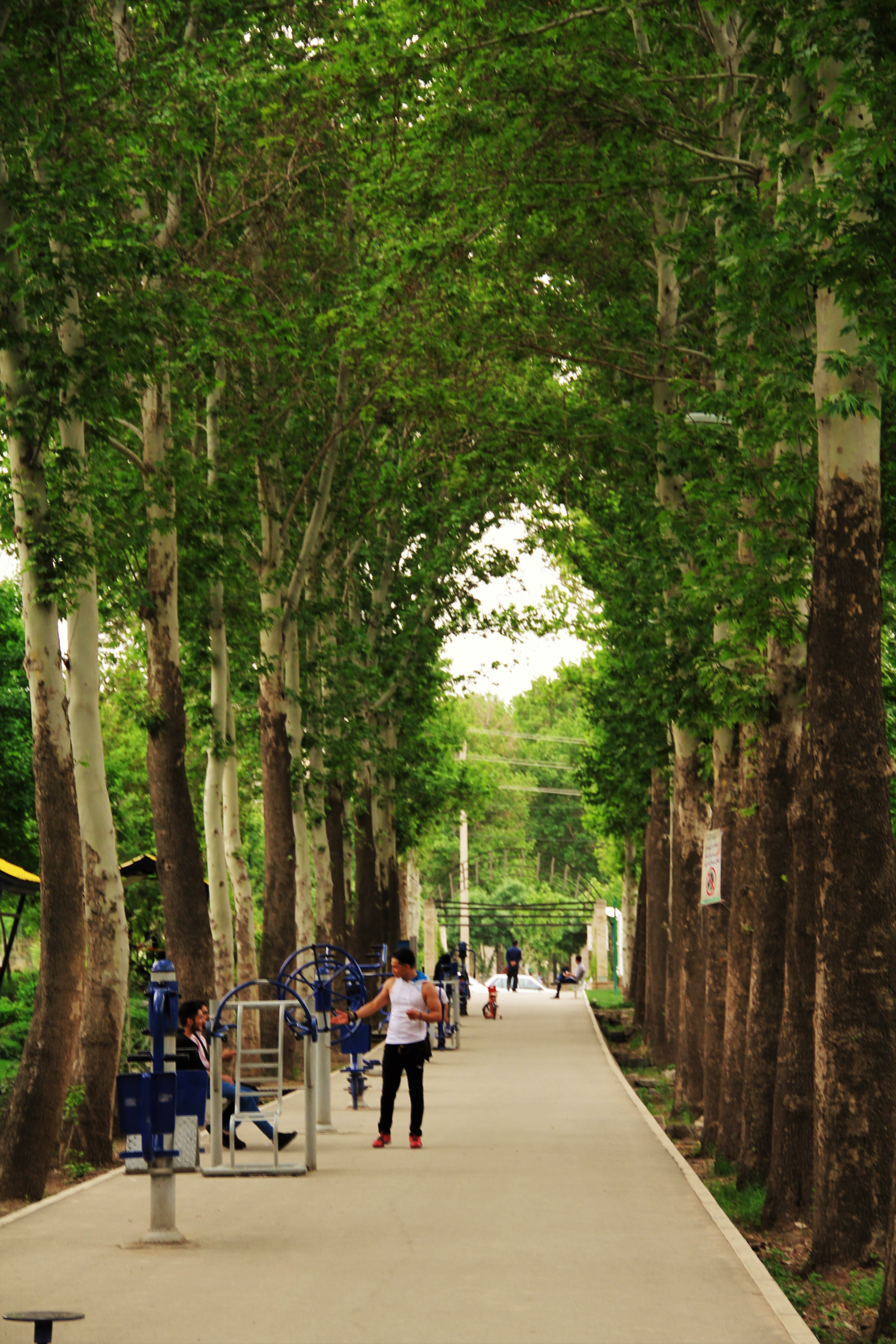 Fateh Garden